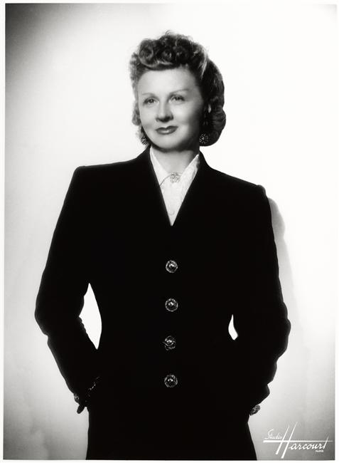 Studio photo